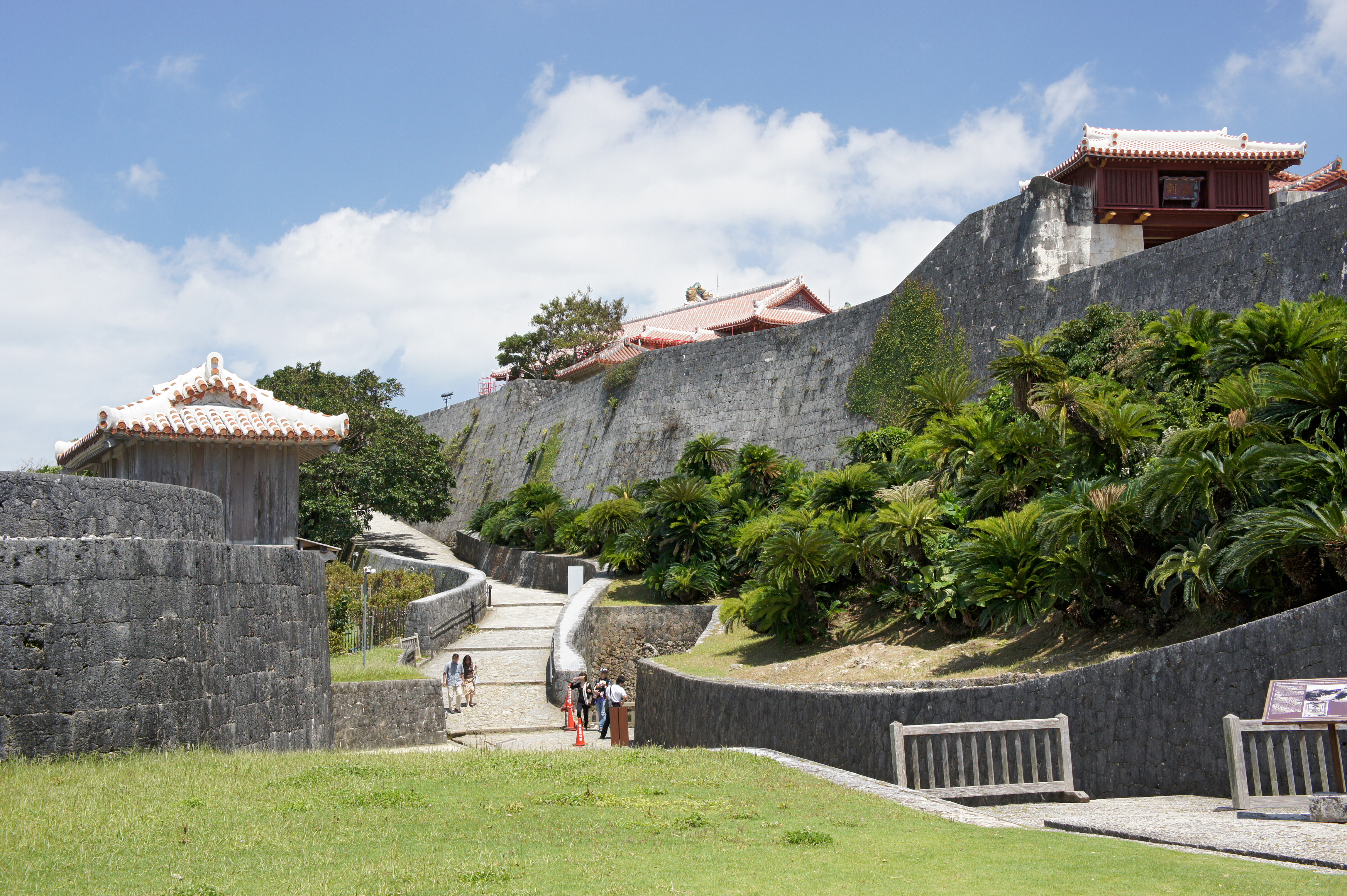 at Shuri Castle in Naha, Okinawa prefecture, Japan